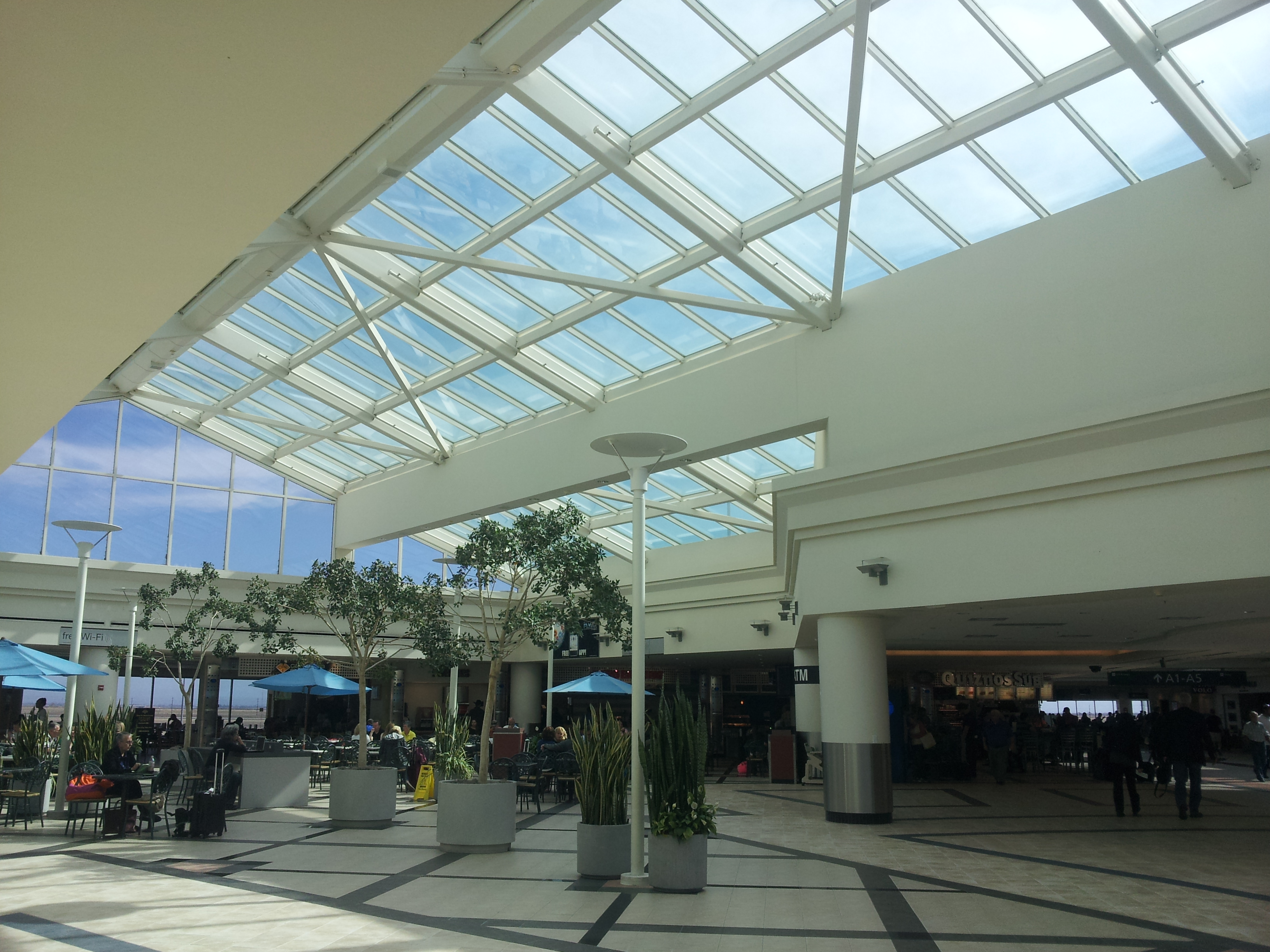 North Natomas, CA, USA